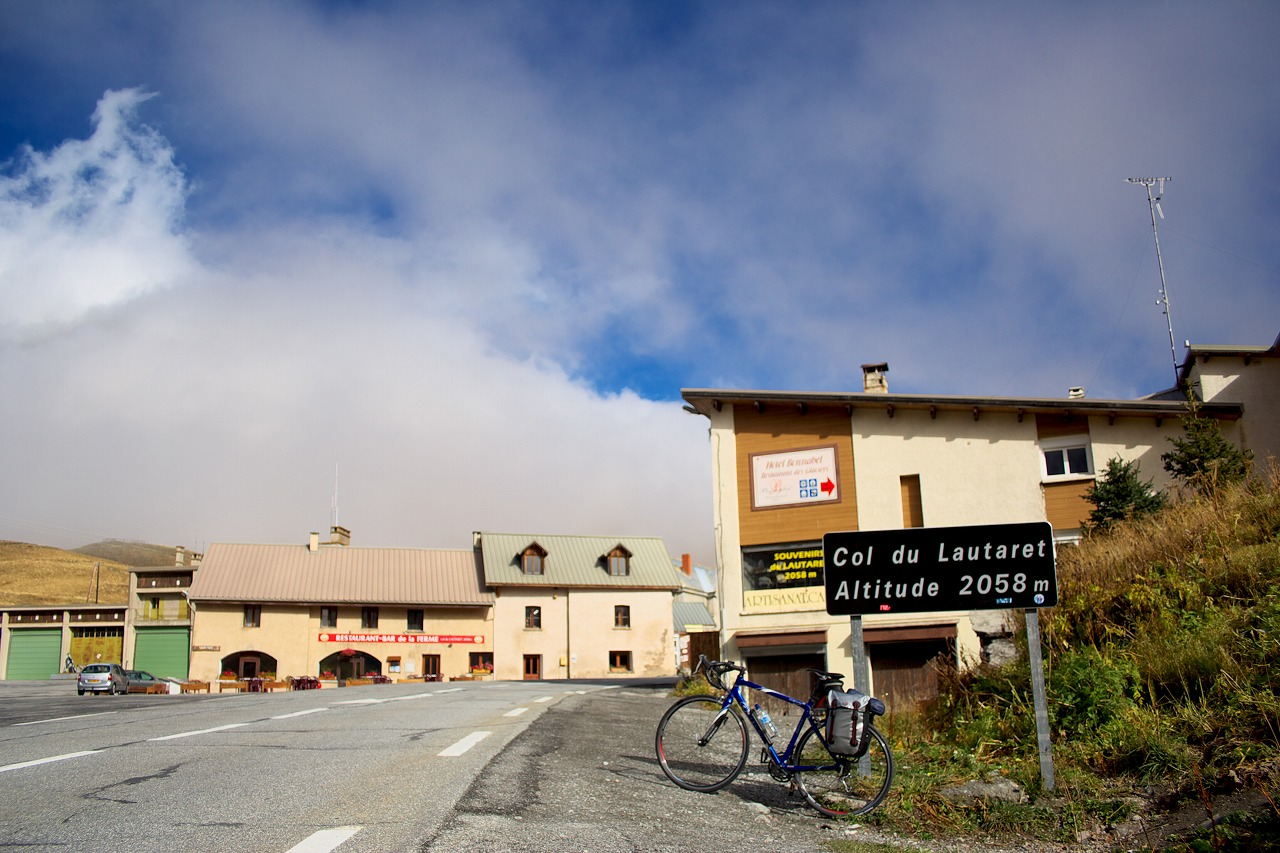 Col du Lautaret (el. 2058 m.) is a high mountain pass in the department of Hautes-Alpes in France.